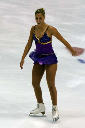 2007 Junior Grand Prix at Lake Placid - Sara Twete